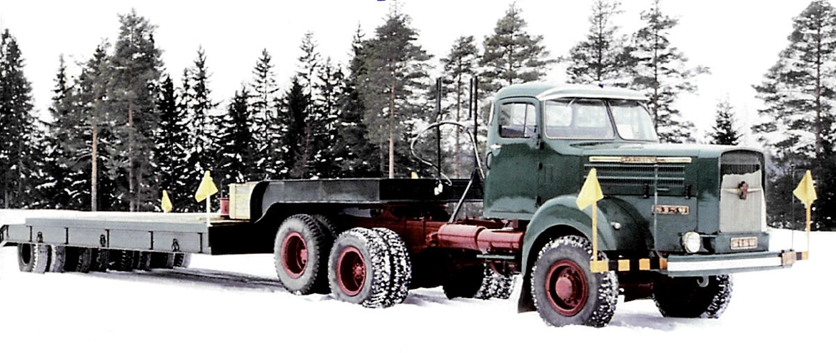 Jyry-Sisu K-44BP 4×4+2 powered by 200...210-hp Leyland O.680 Power Plus six-cylinder in-line diesel.